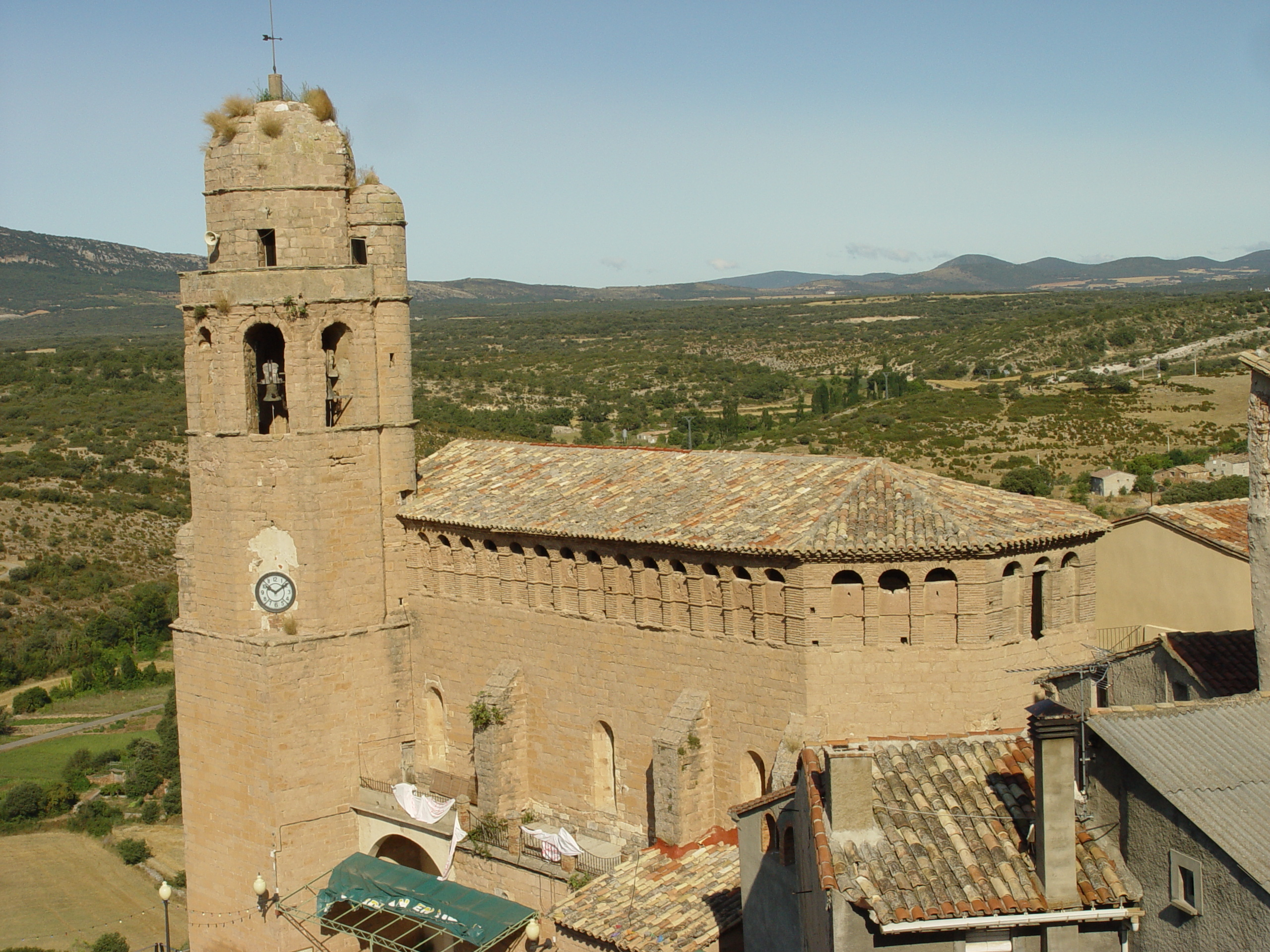 Església de Sant Salvador d'Estopanyà